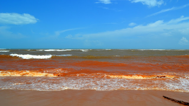 The sea near Uvari red with soil washed into it.